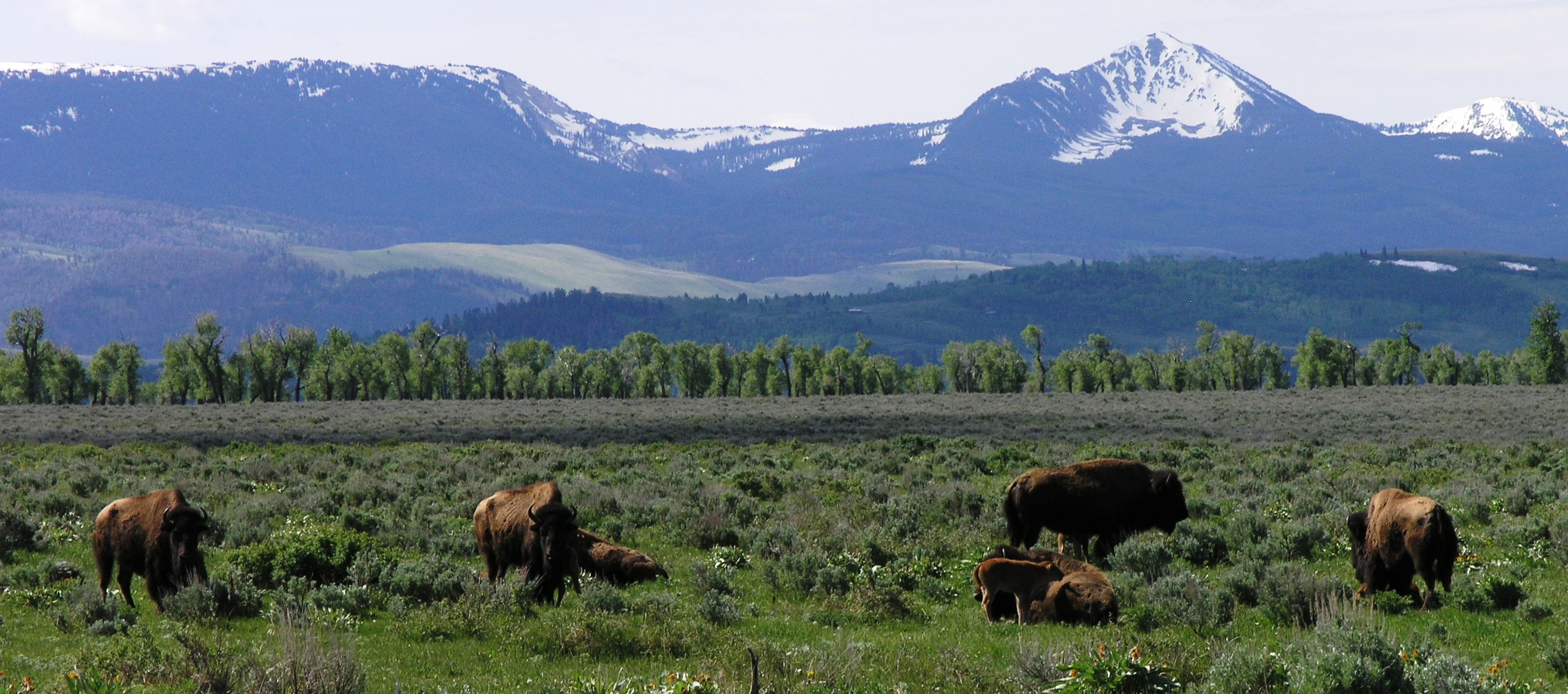 Photo in or around Grand Teton National Park